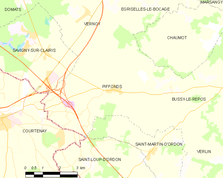 Map of French municipality Piffonds